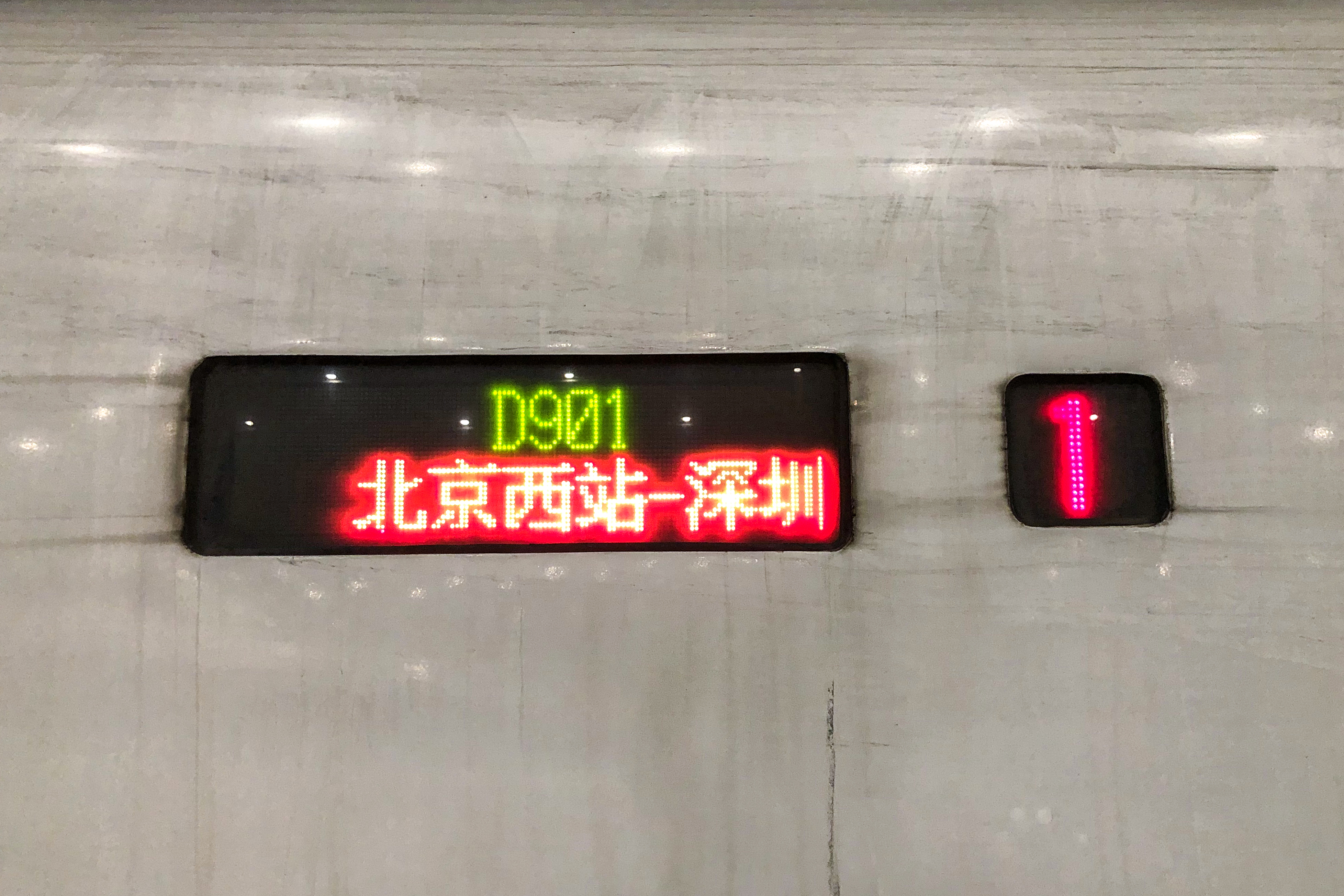 A considerable traffic to Shenzhen.